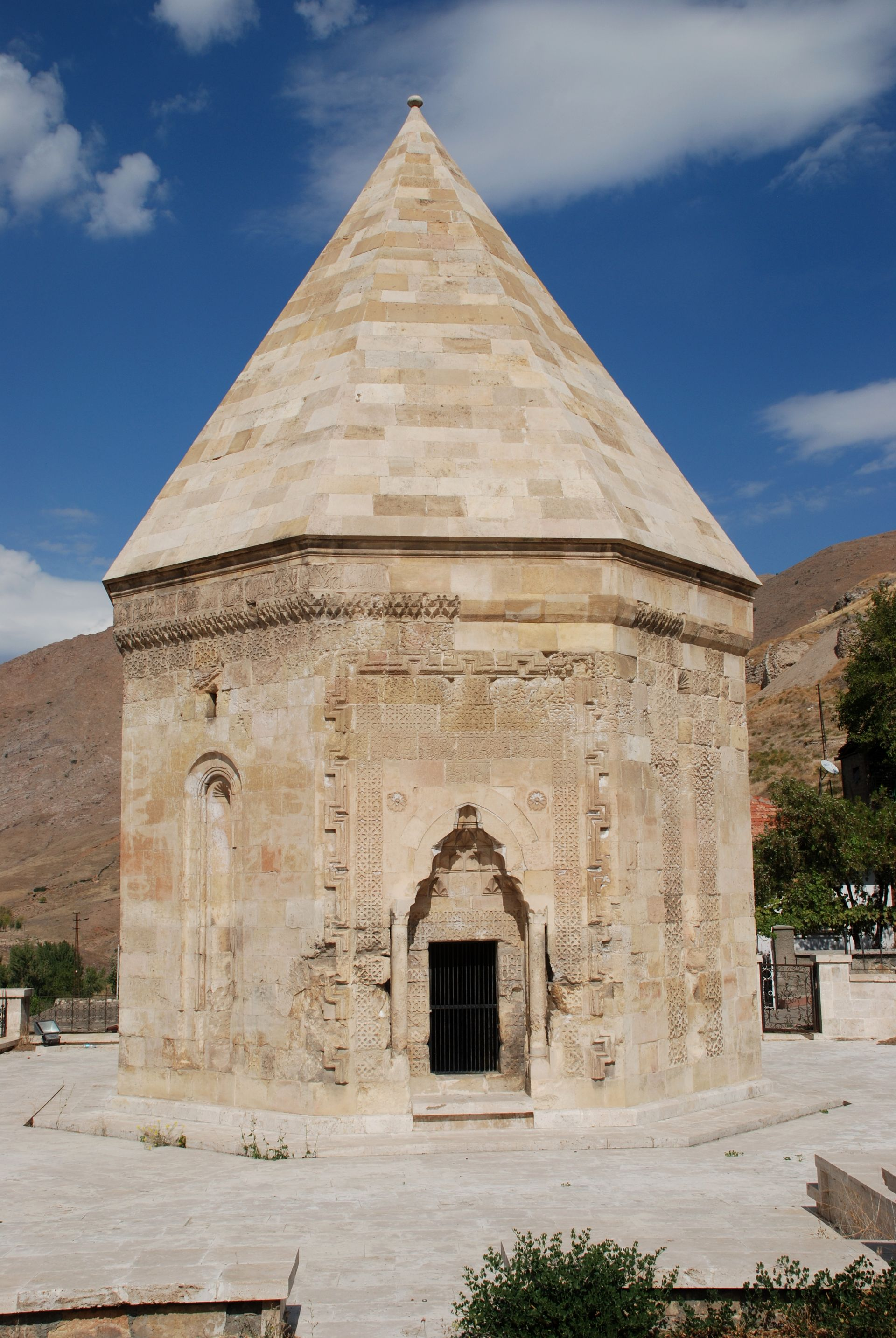 Divriği, Sivas province, Sitte Melik Türbesi